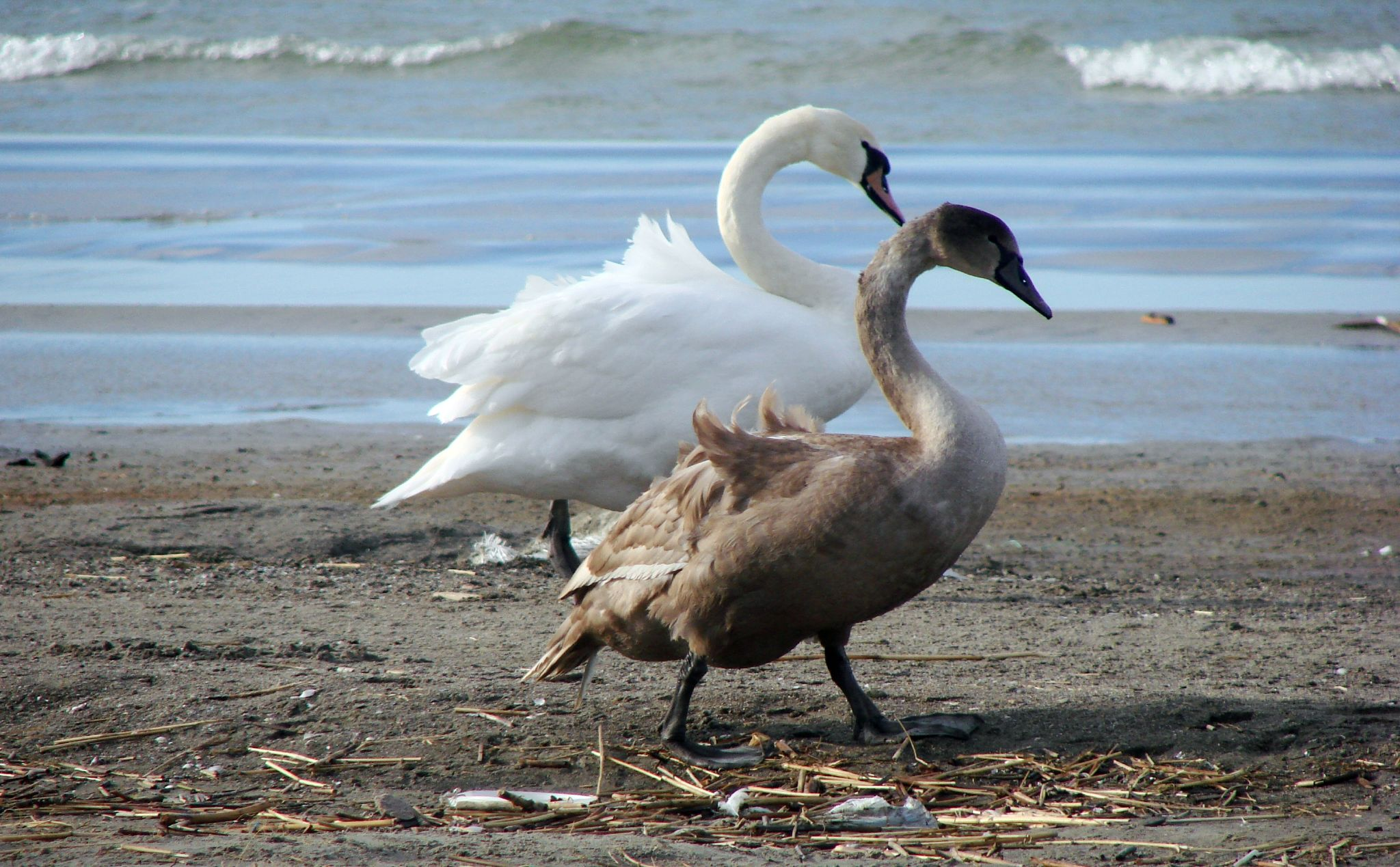 Mute Swan